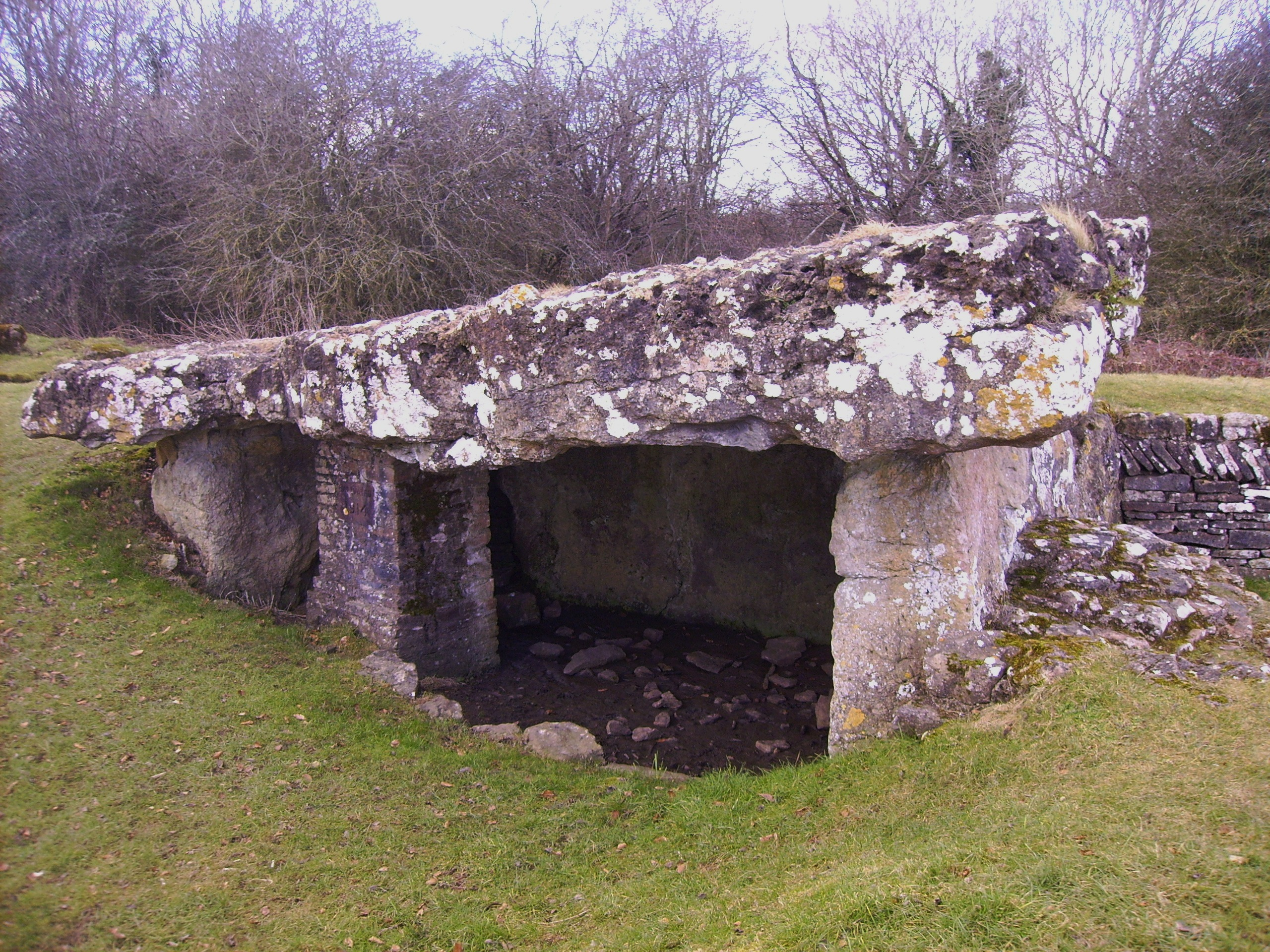 Tinkinswood Burial Chamber, Wales. Taken of interior from South East.